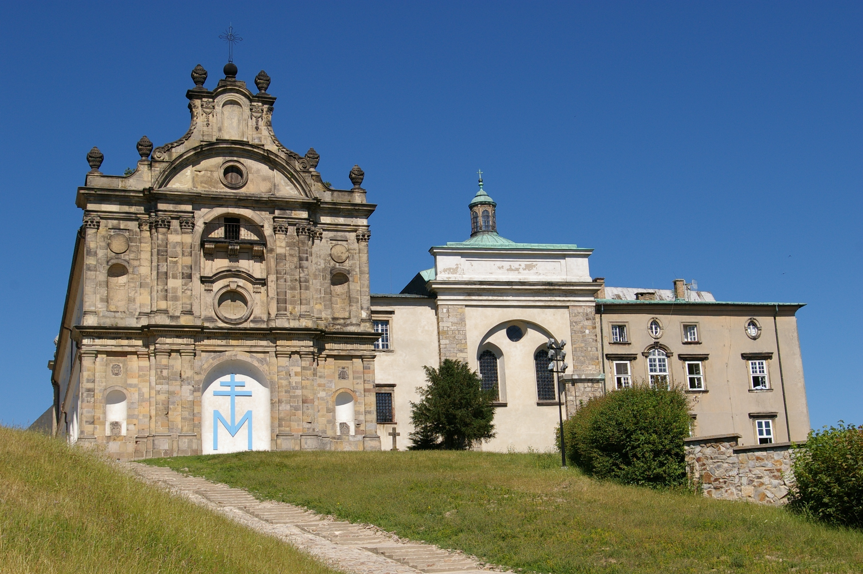 Benedictine Abbey on Święty Krzyż, Poland